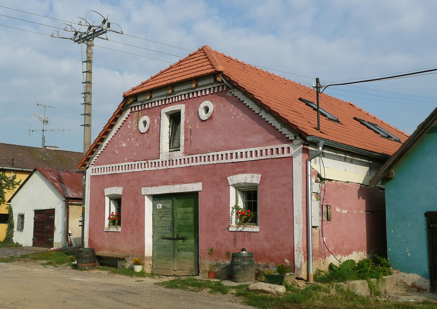 Old wine house in Novy Saldorf (Znojmo wine region)